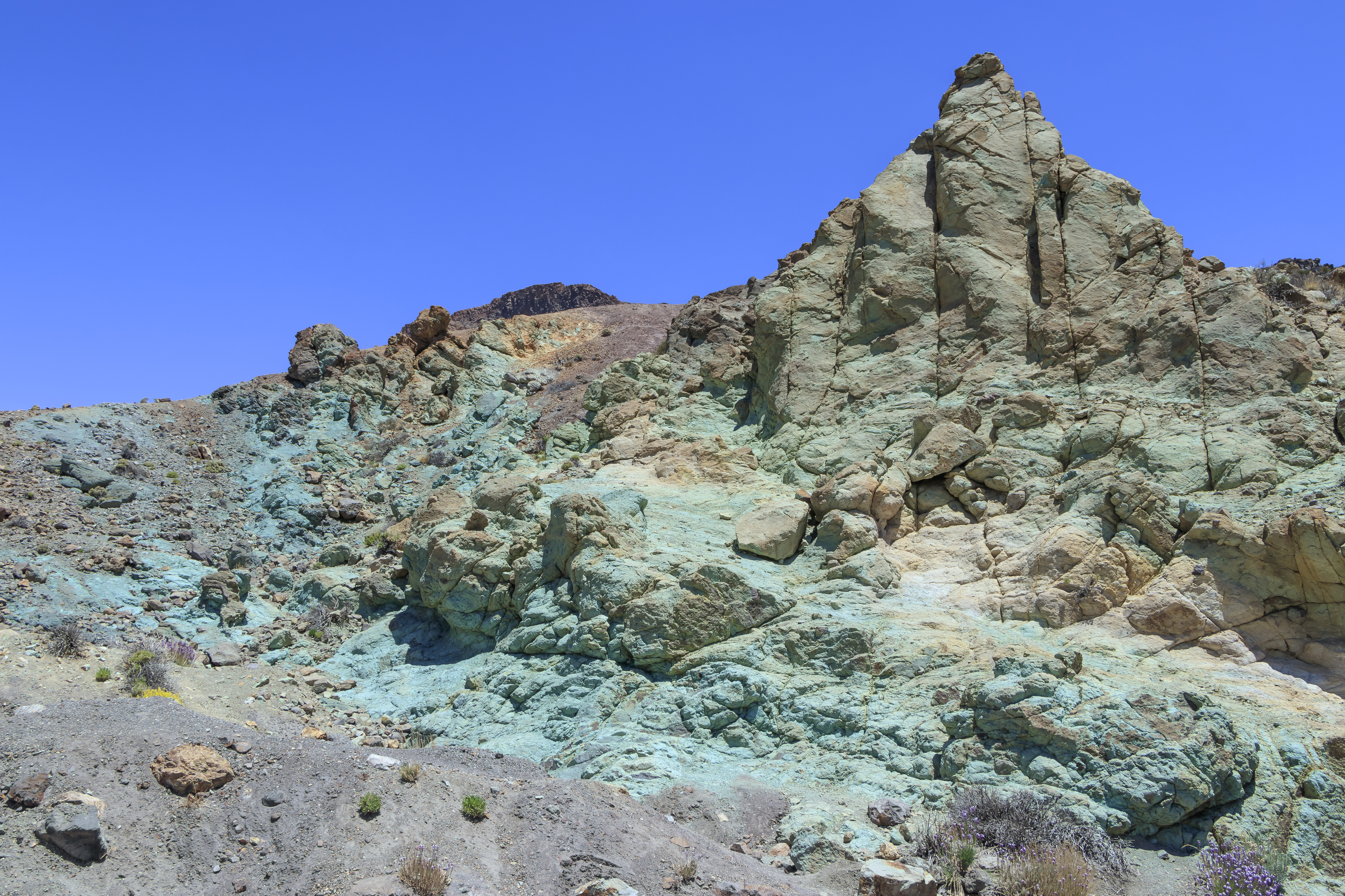 Los Azulejos, Caldera de las Cañadas, Tenerife, Canary Islands, Spain.